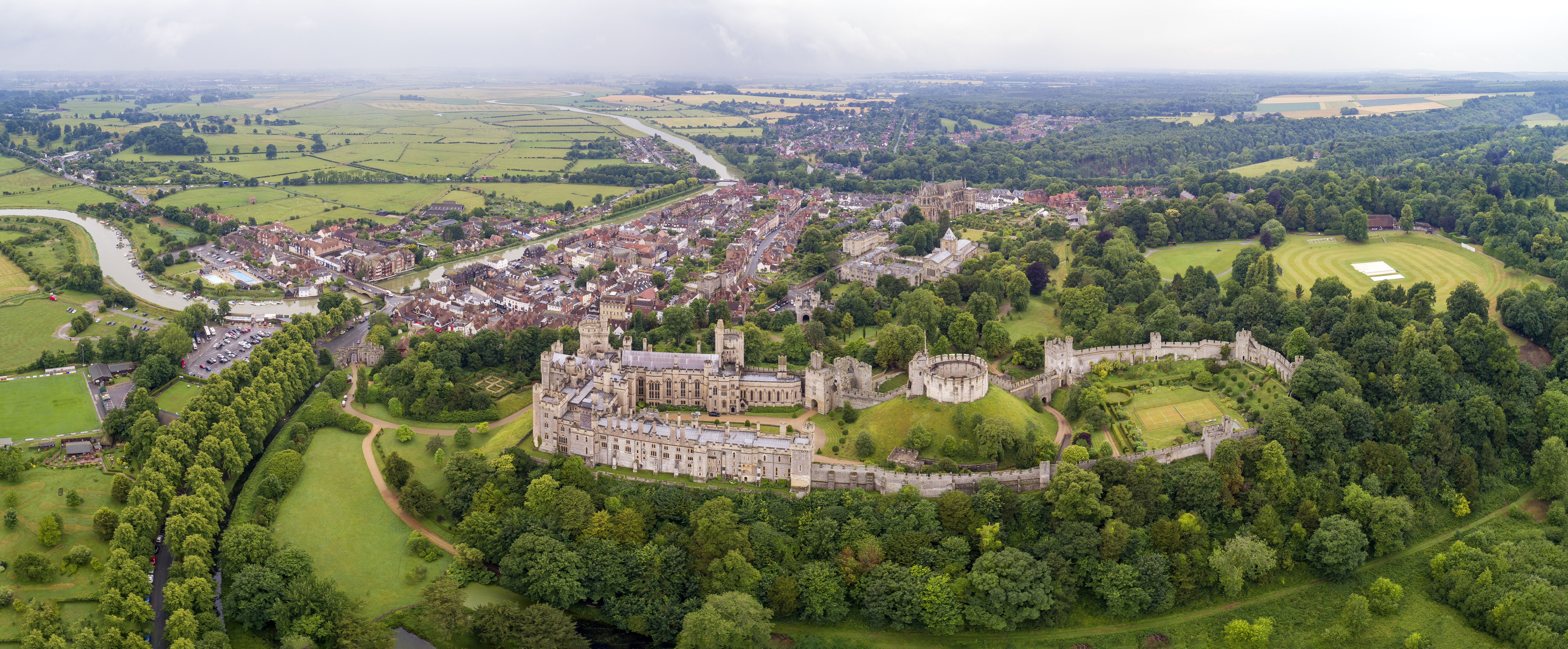 aerial panorama arundel castle 2017